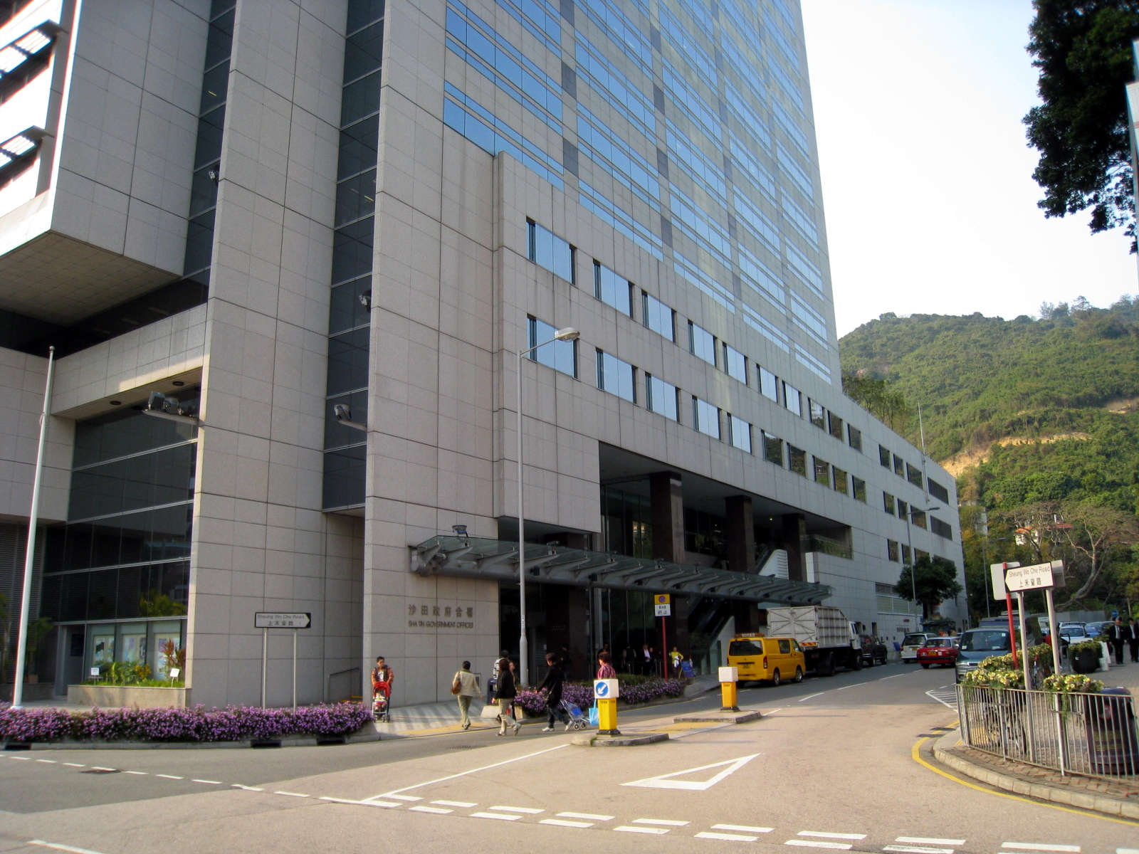 HK Sha Tin Government Offices Enterance